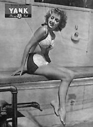 Pin-up photo of Evelyn Keyes for the Mar. 4, 1944 (British Edition) issue of Yank, the Army Weekly, a weekly U.S. Army magazine fully staffed by enlisted men.